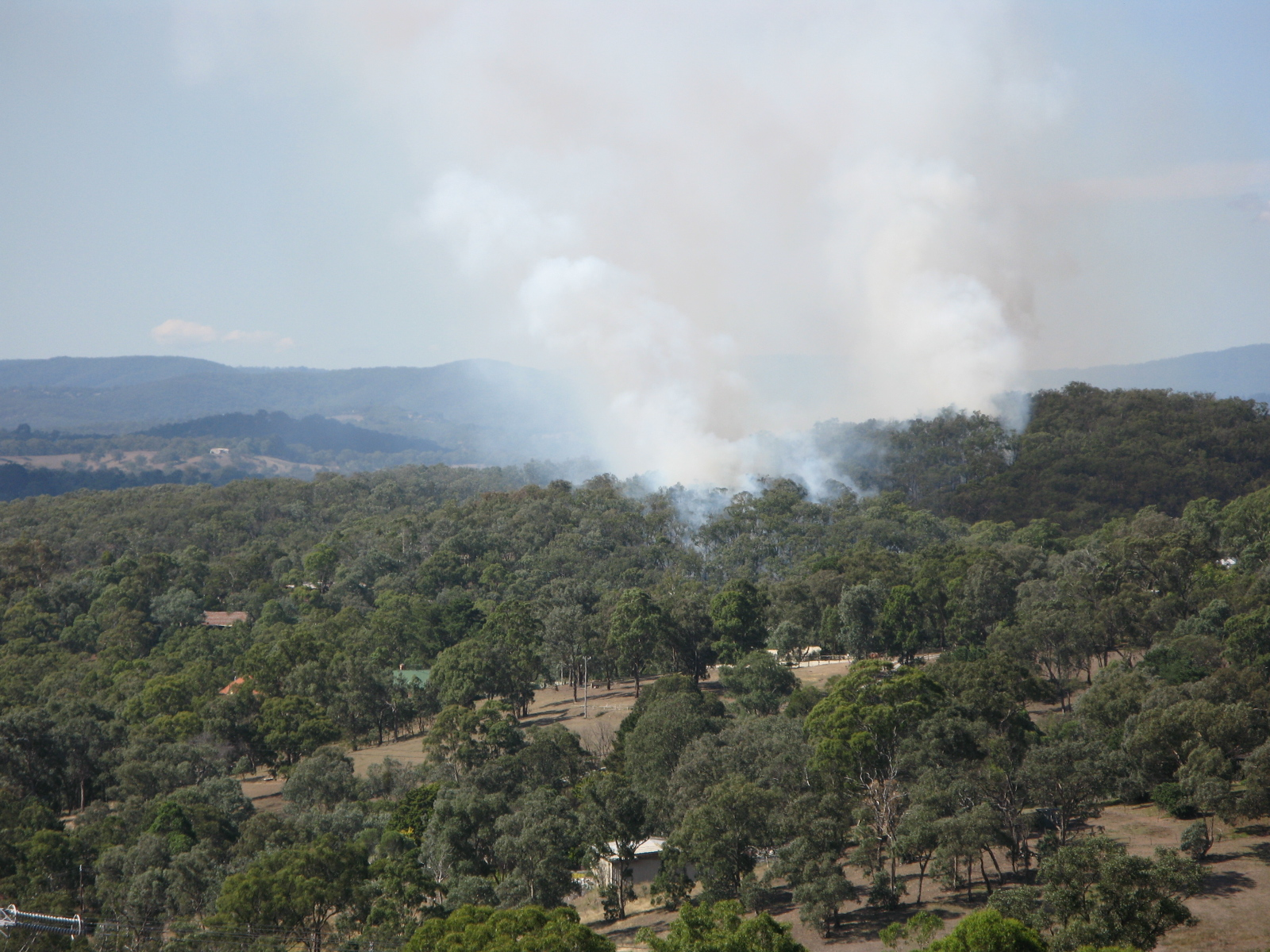 Backburning in the Warrandyte State Park in central Warrandyte, Victoria, Australia. Photo taken by myself in 2008.